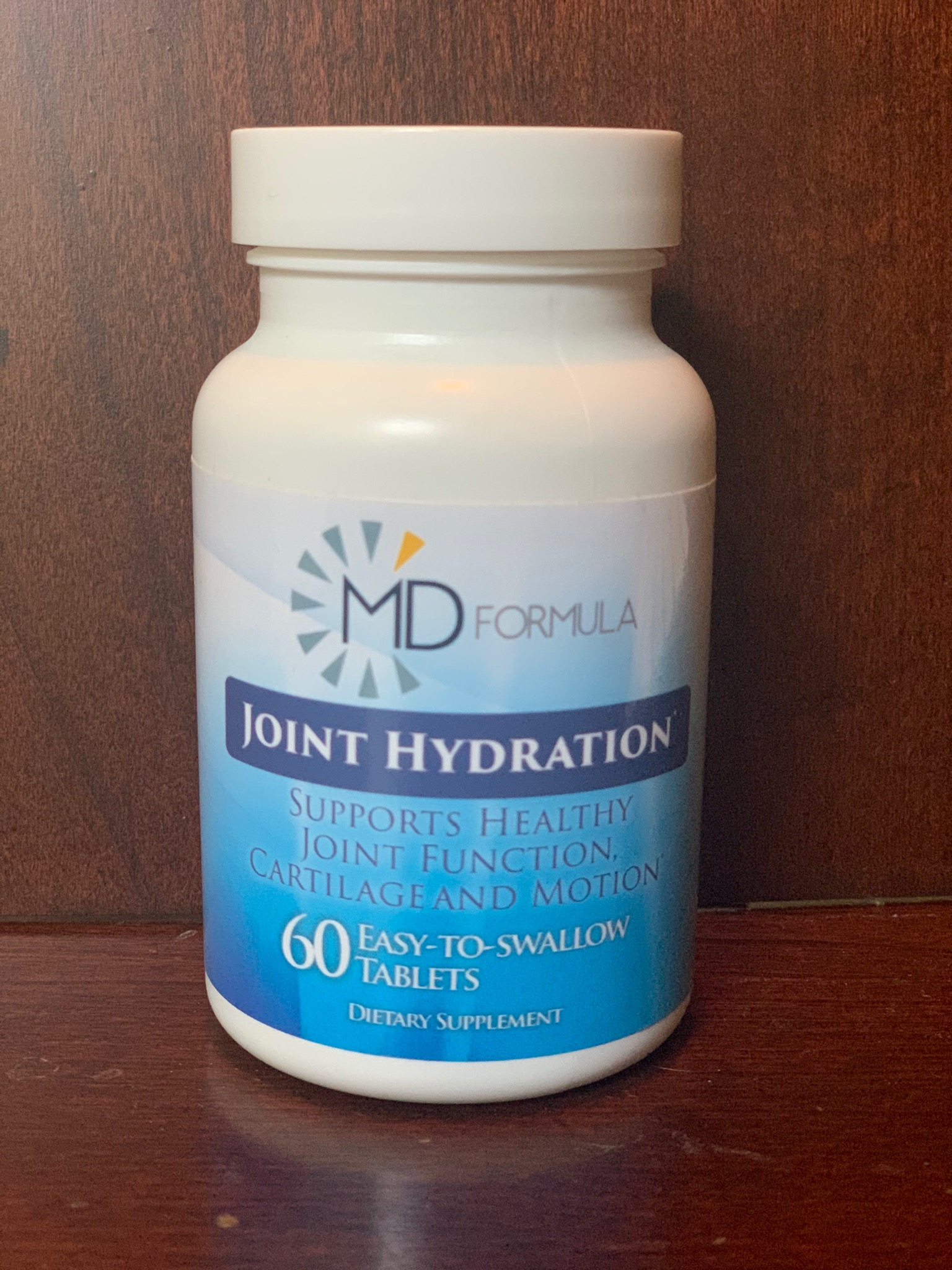 An over the counter joint supplement with hyaluronic acid, glucosamine and chondroitin.